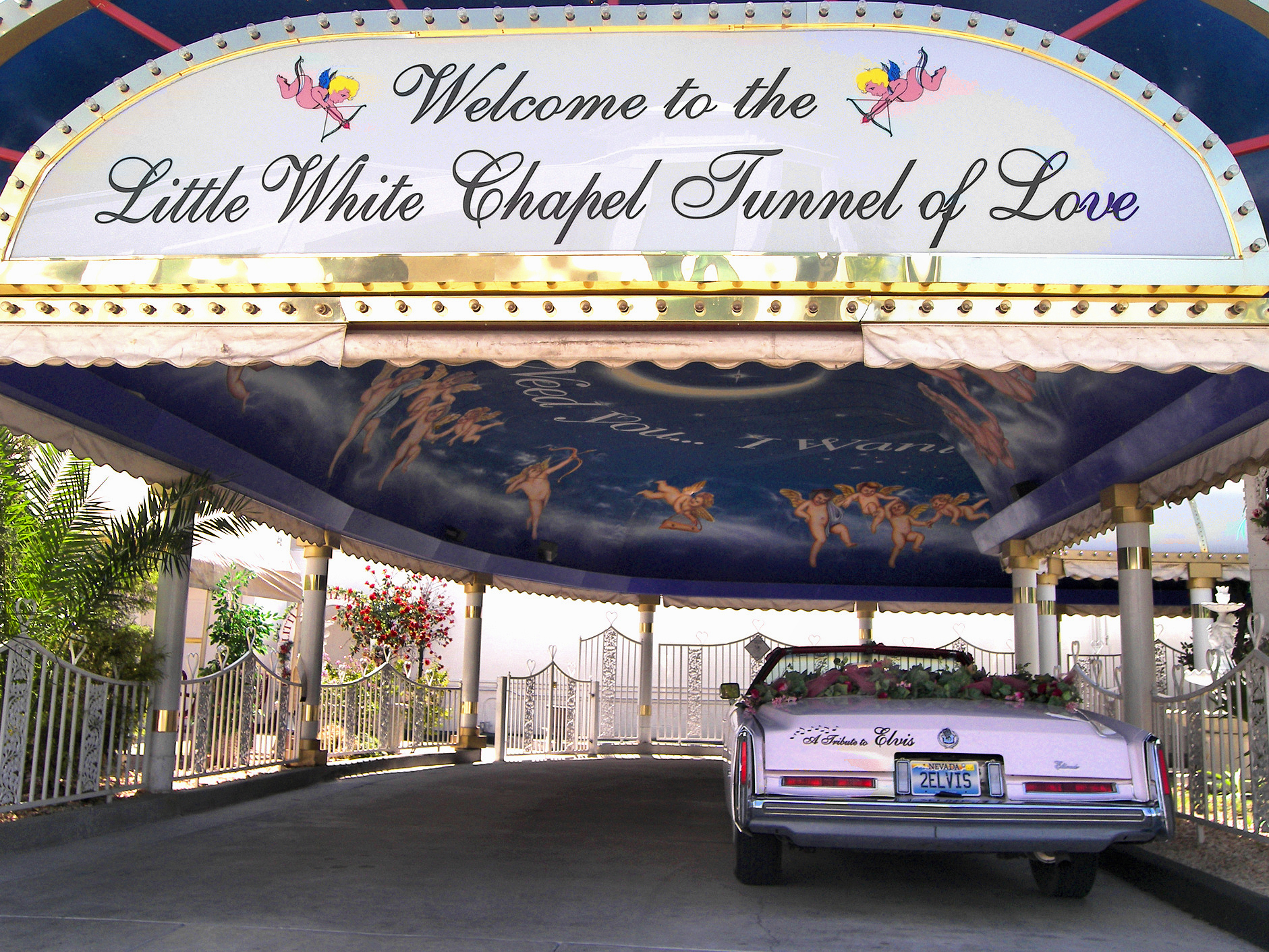 The Little White Wedding Chapel drive-through tunnel of vows located in Las Vegas, Nevada, United States.